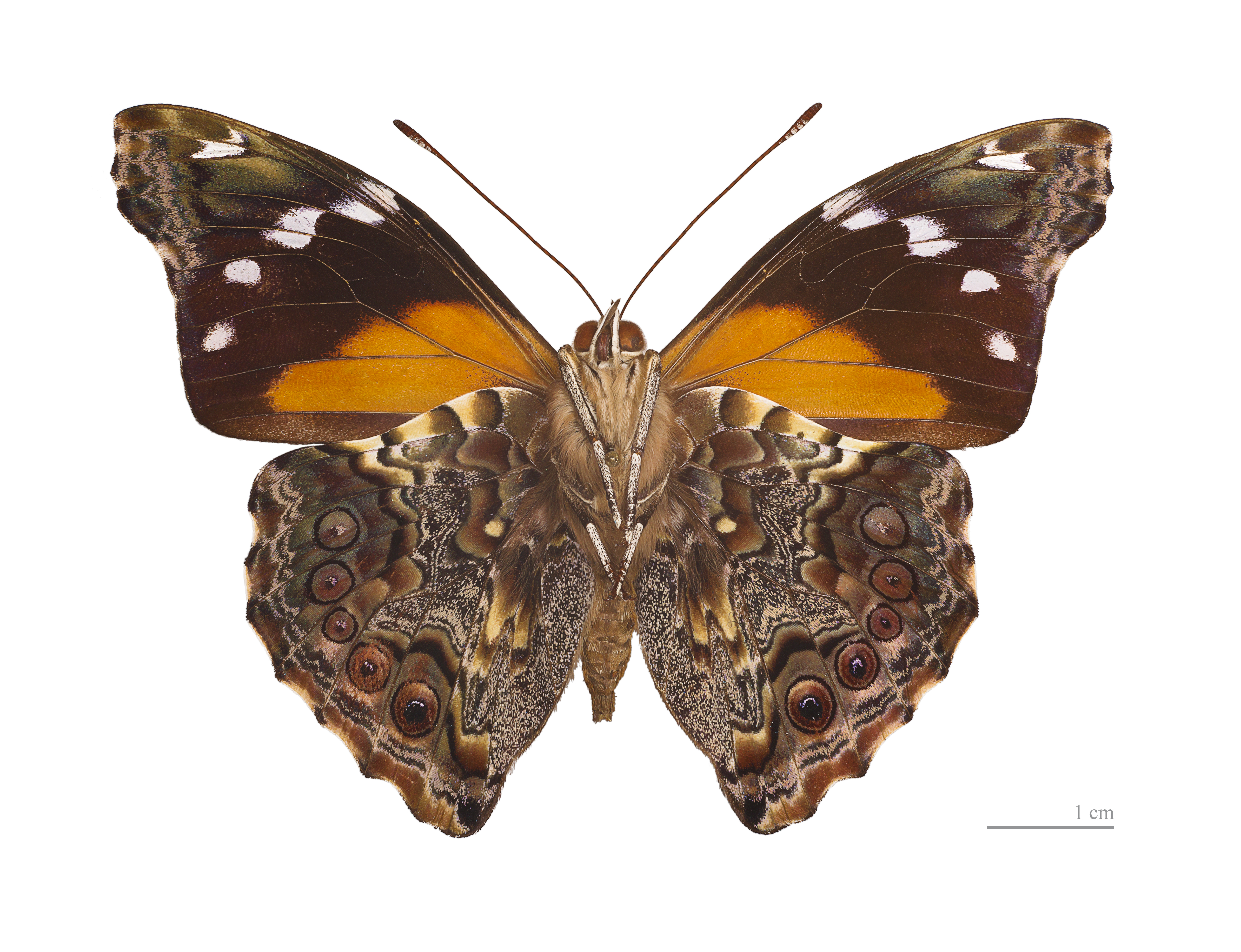 ♂ - △ Ventral side Locality: Tinog Maria, Leoncio Prado Province, Peru